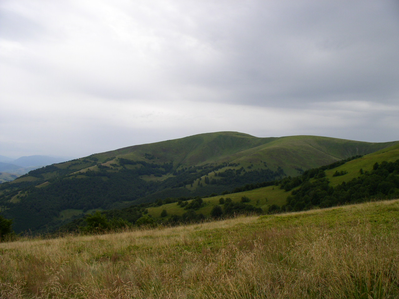 Polonina Borzha range. Carpathian Mountains, Ukraine.